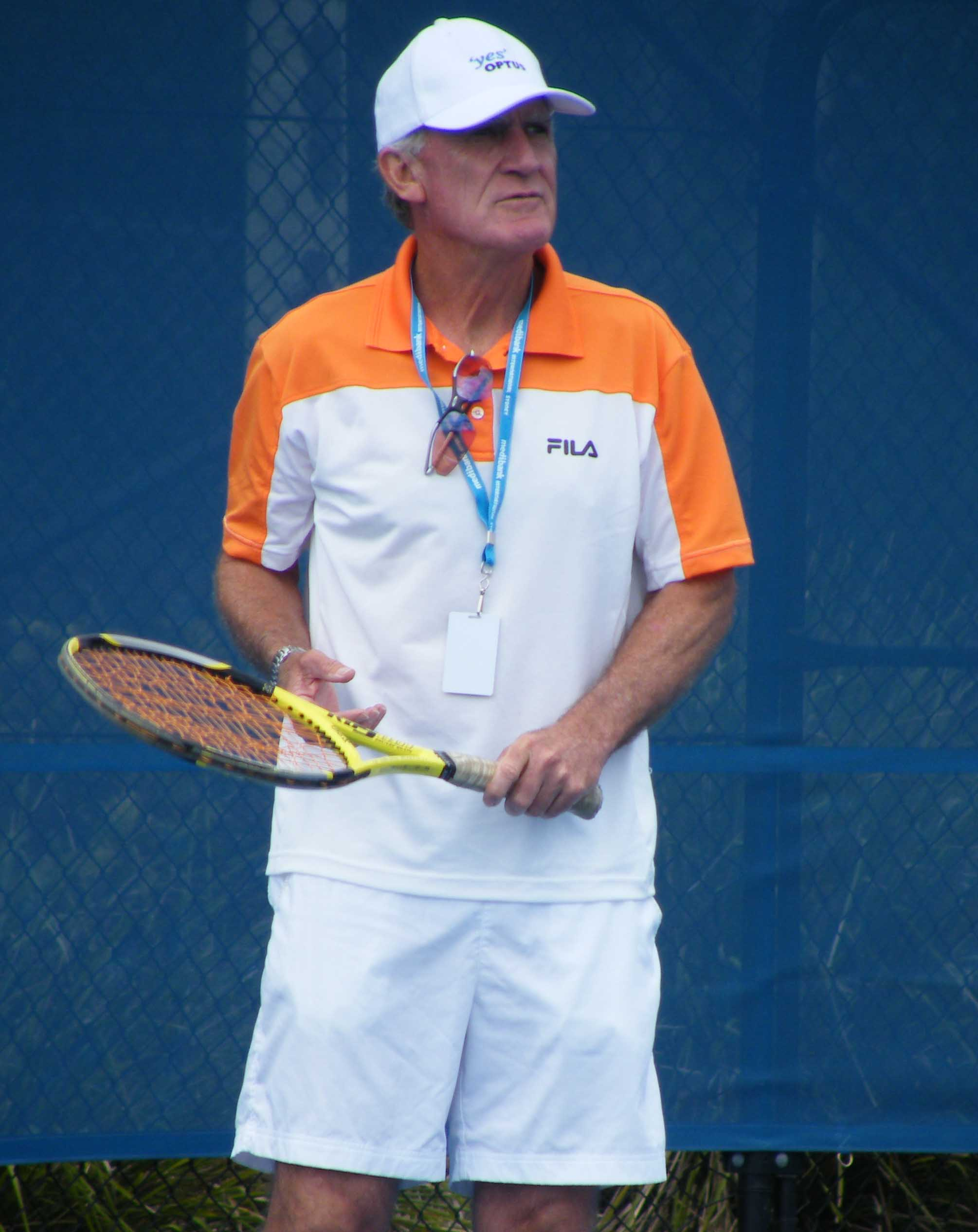 Australian Tennis legend Tony Roche at the NSW Tennis Open - January 2009.